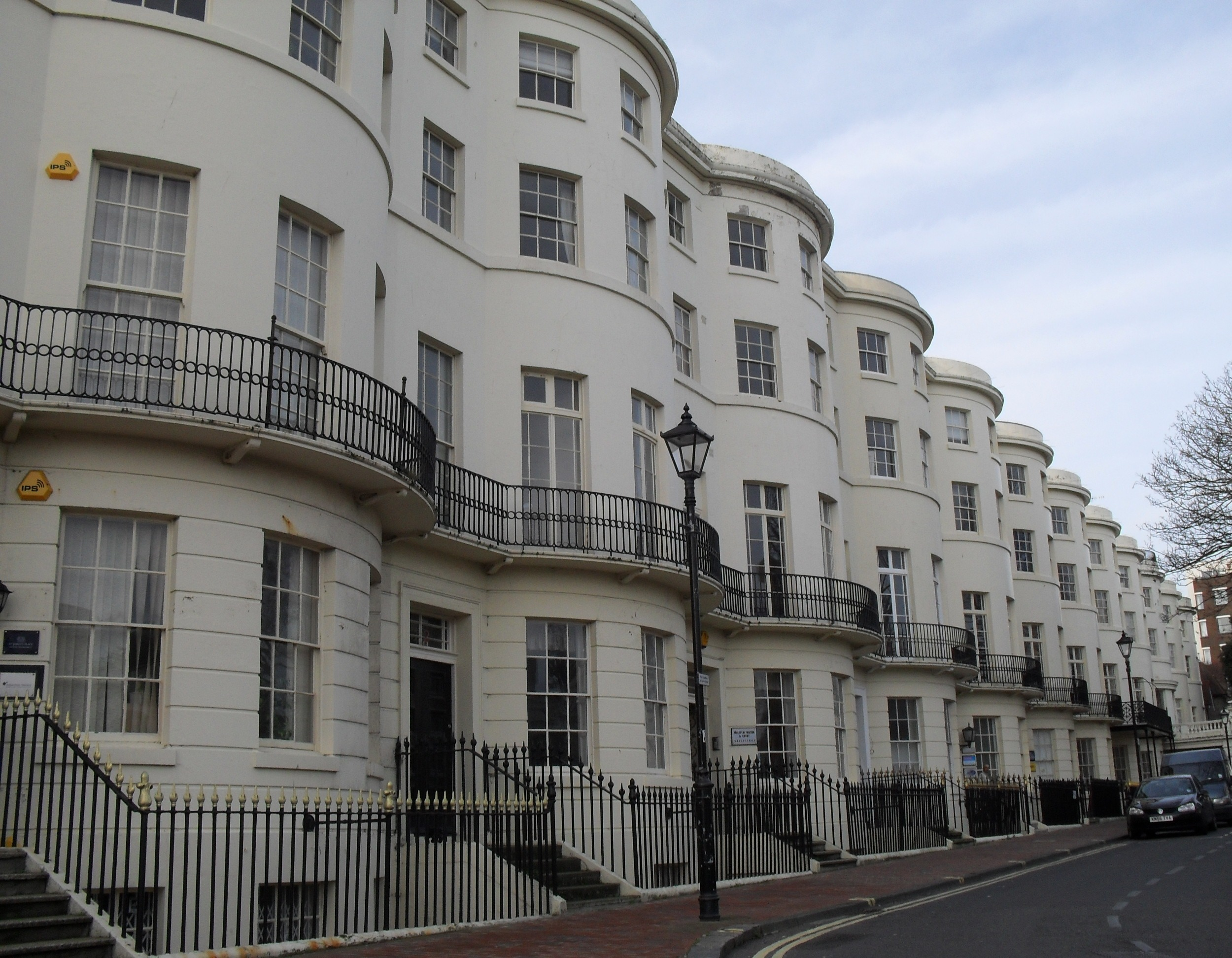 Liverpool Terrace, Worthing, West Sussex, England. Built speculatively in 1828, this is now one of Worthing's most important pieces of architecture. Listed at Grade II by English Heritage (IoE Code 432804)